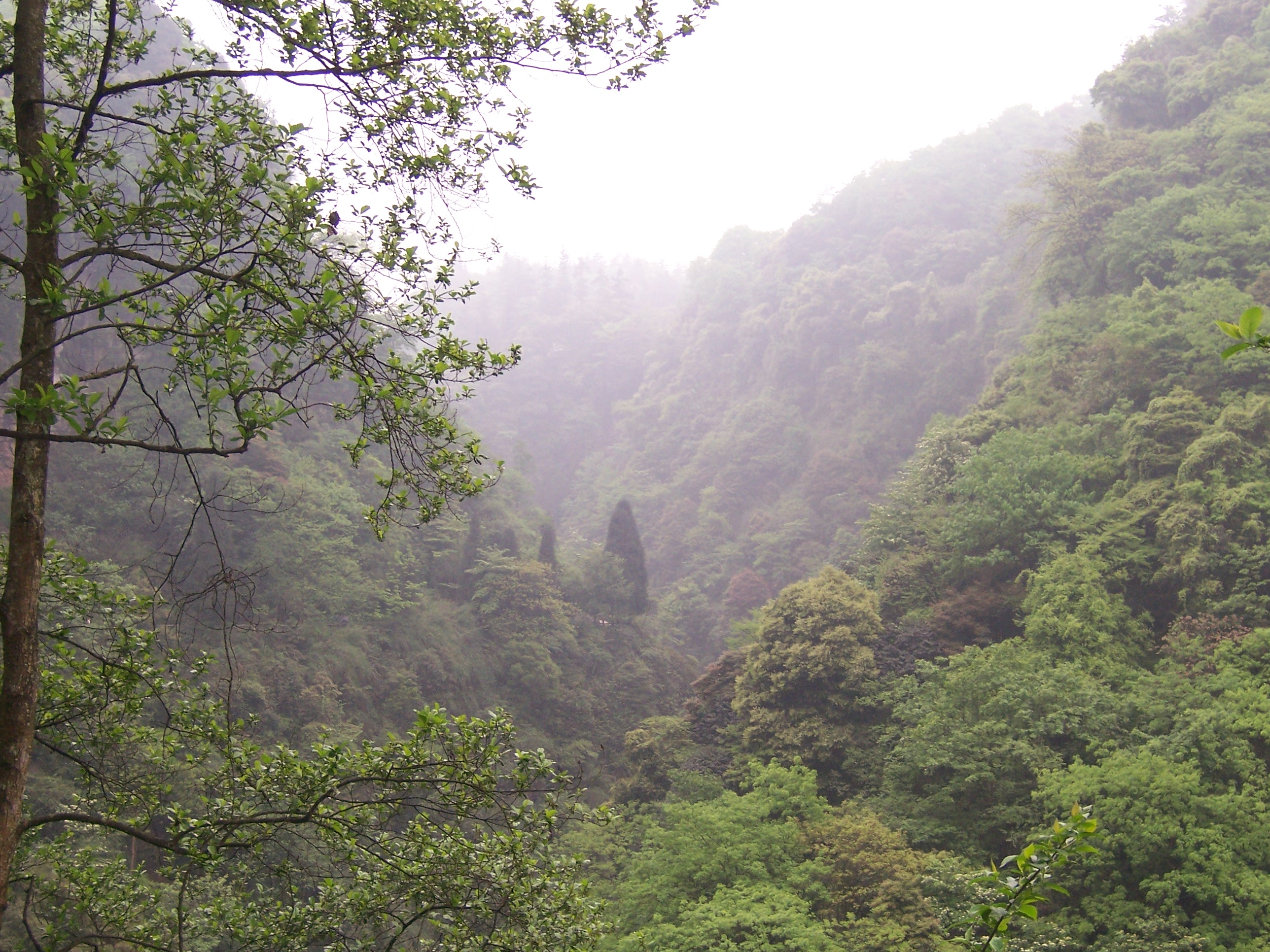 China - Emei Shan 1 - lush misty forest